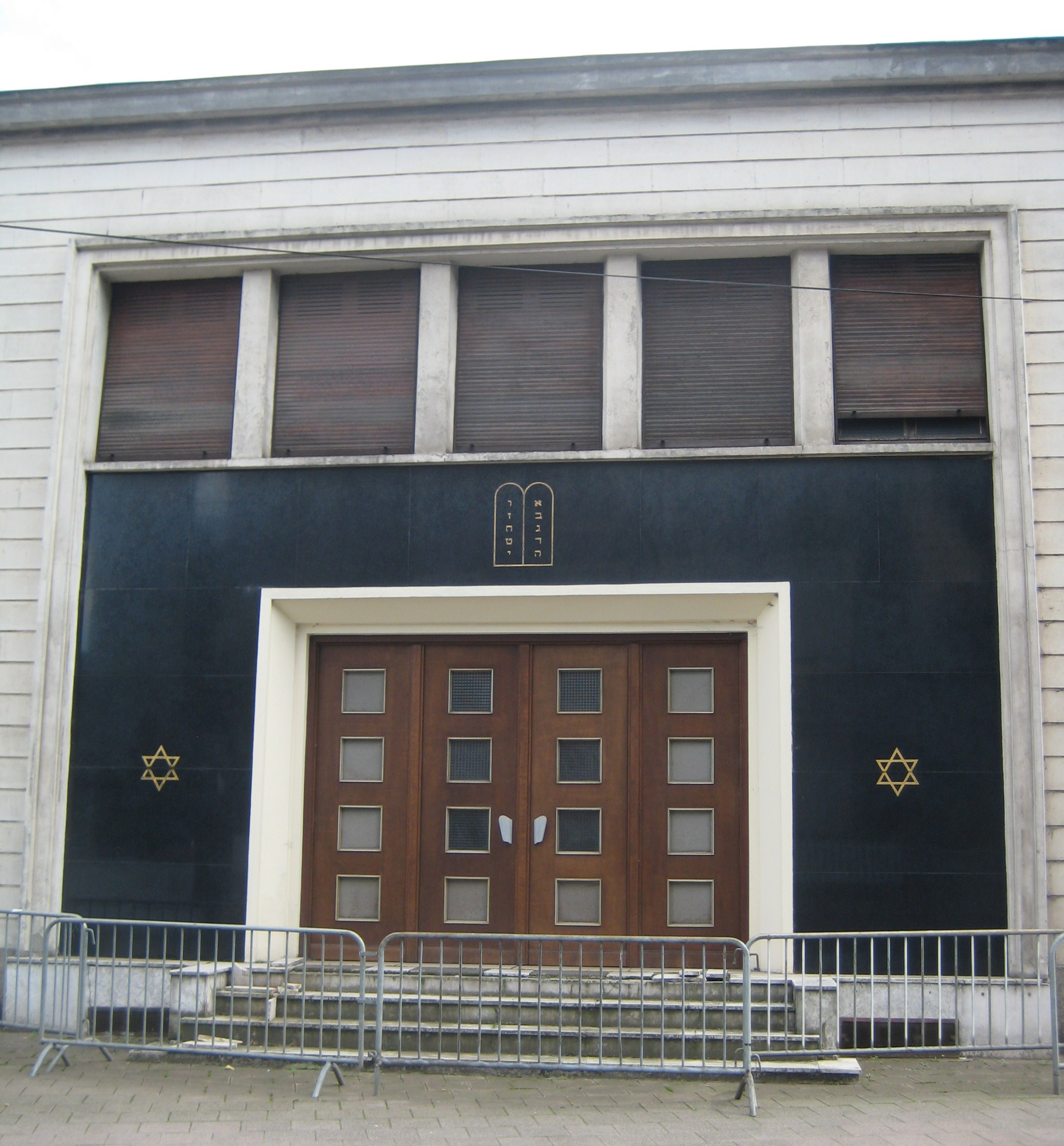 Description synagogue Hayange Date26 August 2011Sourcemon appareil photoAuthorAimelaimePermission (Reusing this file) synagogue Hayange